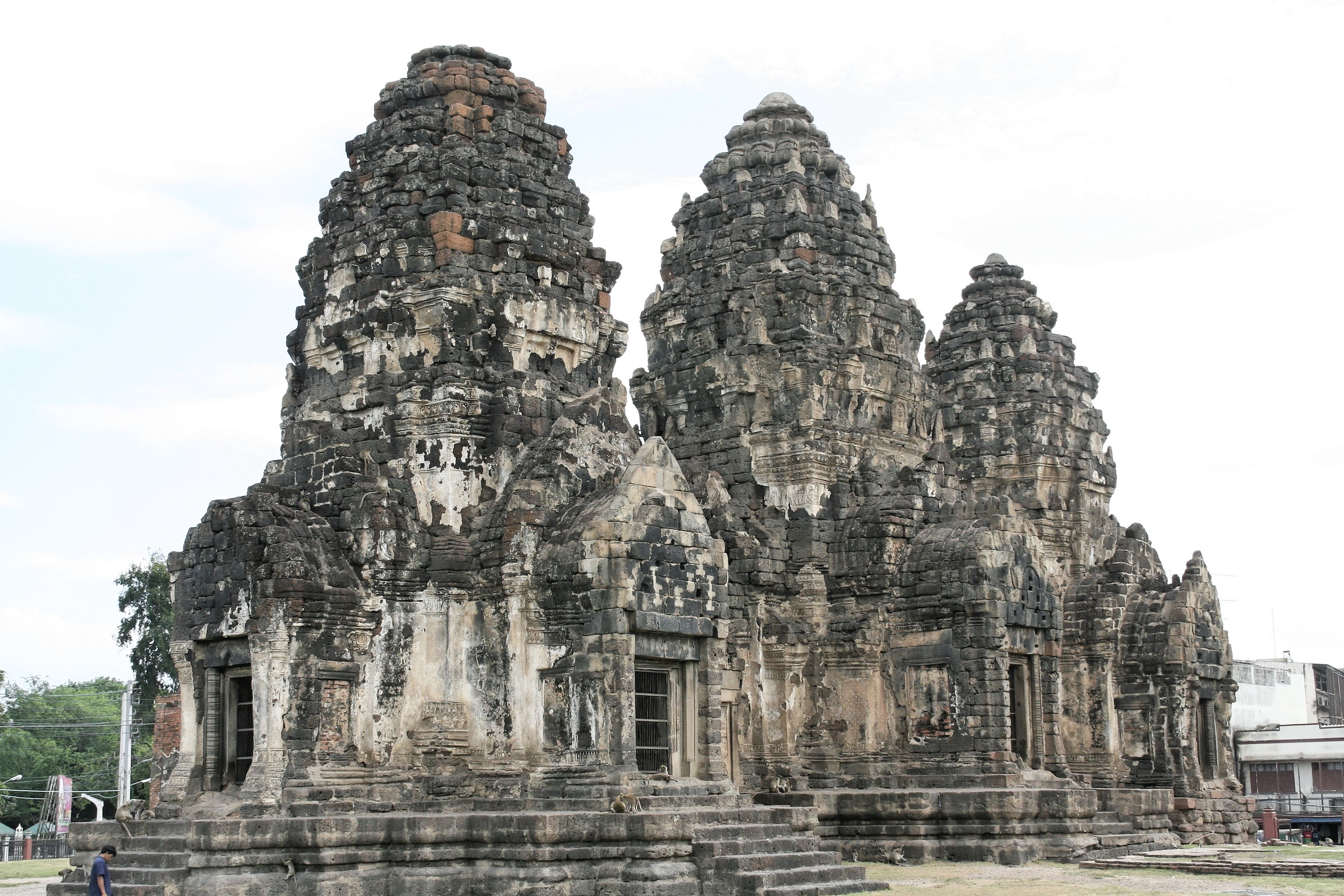 Phra Prang Sam Yod, Lopburi, Thailand